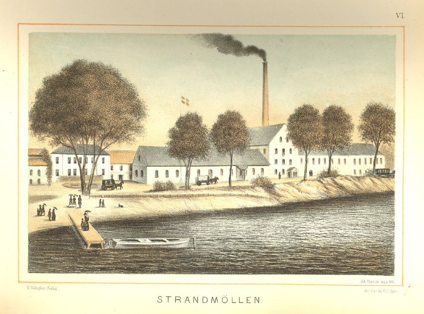 Strandmøllen on the coast north of Copenhagen, Denmark